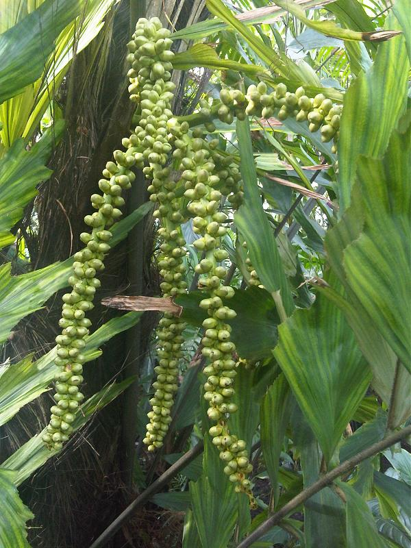 Arenga undulatifolia - syn: Arenga ambong fruits in Kew Gardens, England.